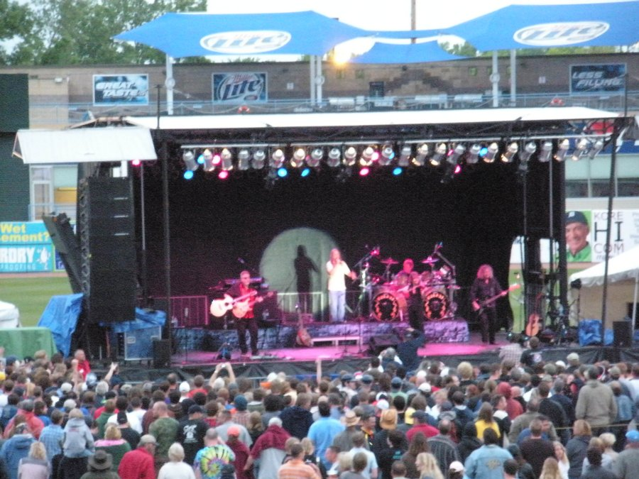 Kansas, taken at Fifth Third Ballpark, in Grand Rapids, Michigan, June 6, 2009 (this is a crappy image but since there were very few images of Kansas, I uploaded it anyway)